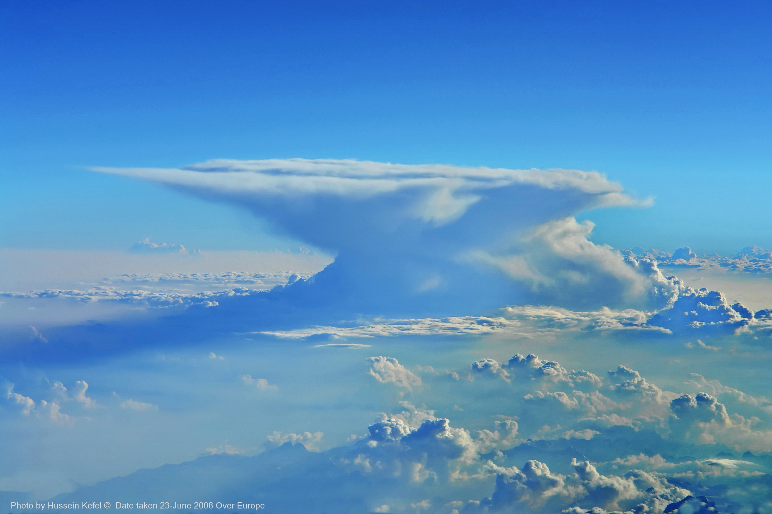 I was travelling from Dubai to London via Emirates Airlines and somewhere over Europe probably between Italy and France where I noticed this huge cloud. Camera used Sony DSC-R1